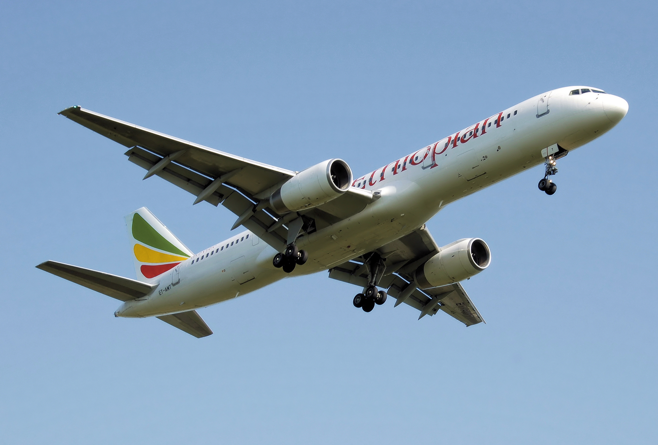 Ethiopian Airlines Boeing 757-200 (ET-AMT) lands at London Heathrow Airport, England.